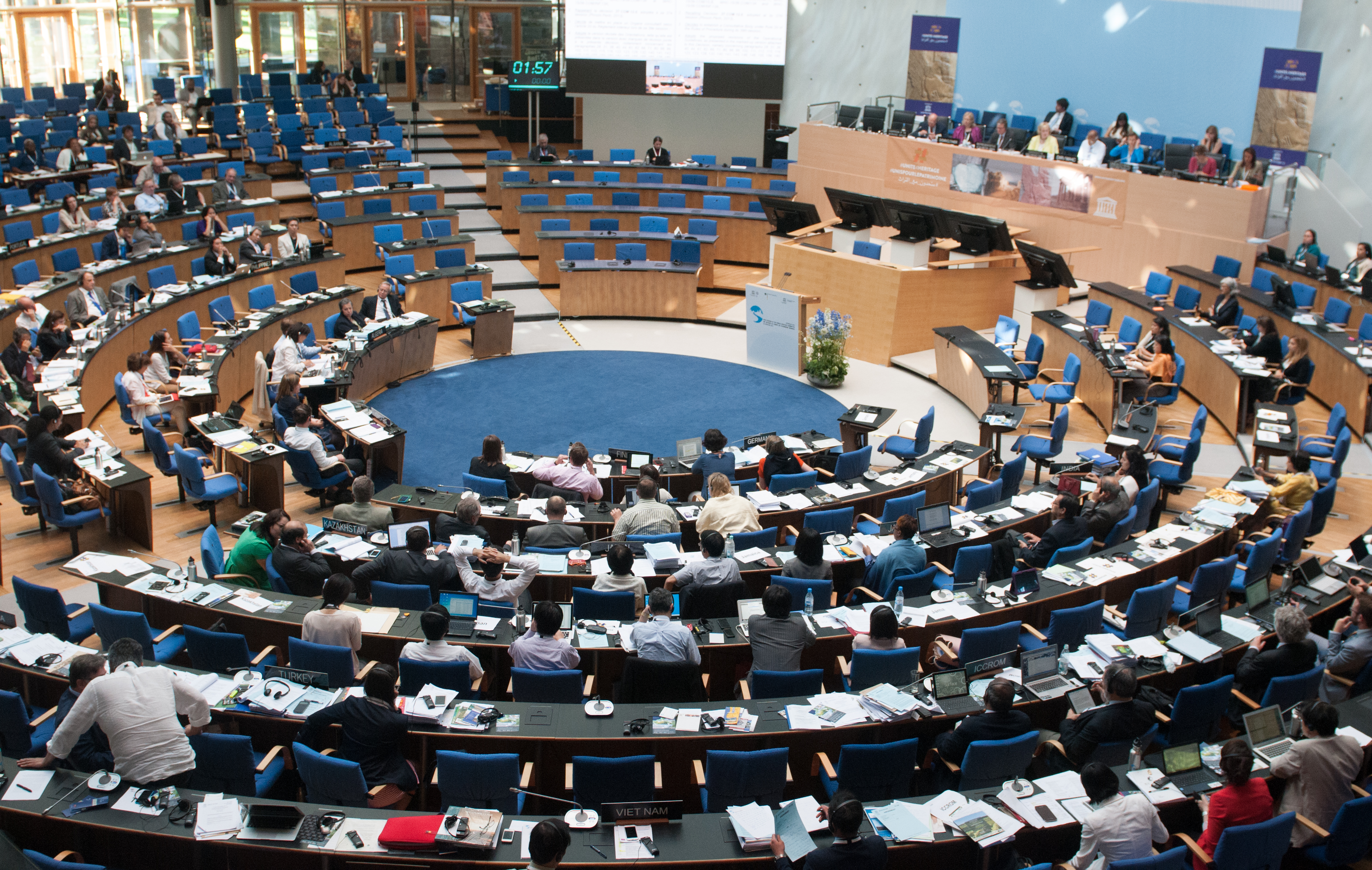 39 World Heritage Committee Bonn, Juli 2015